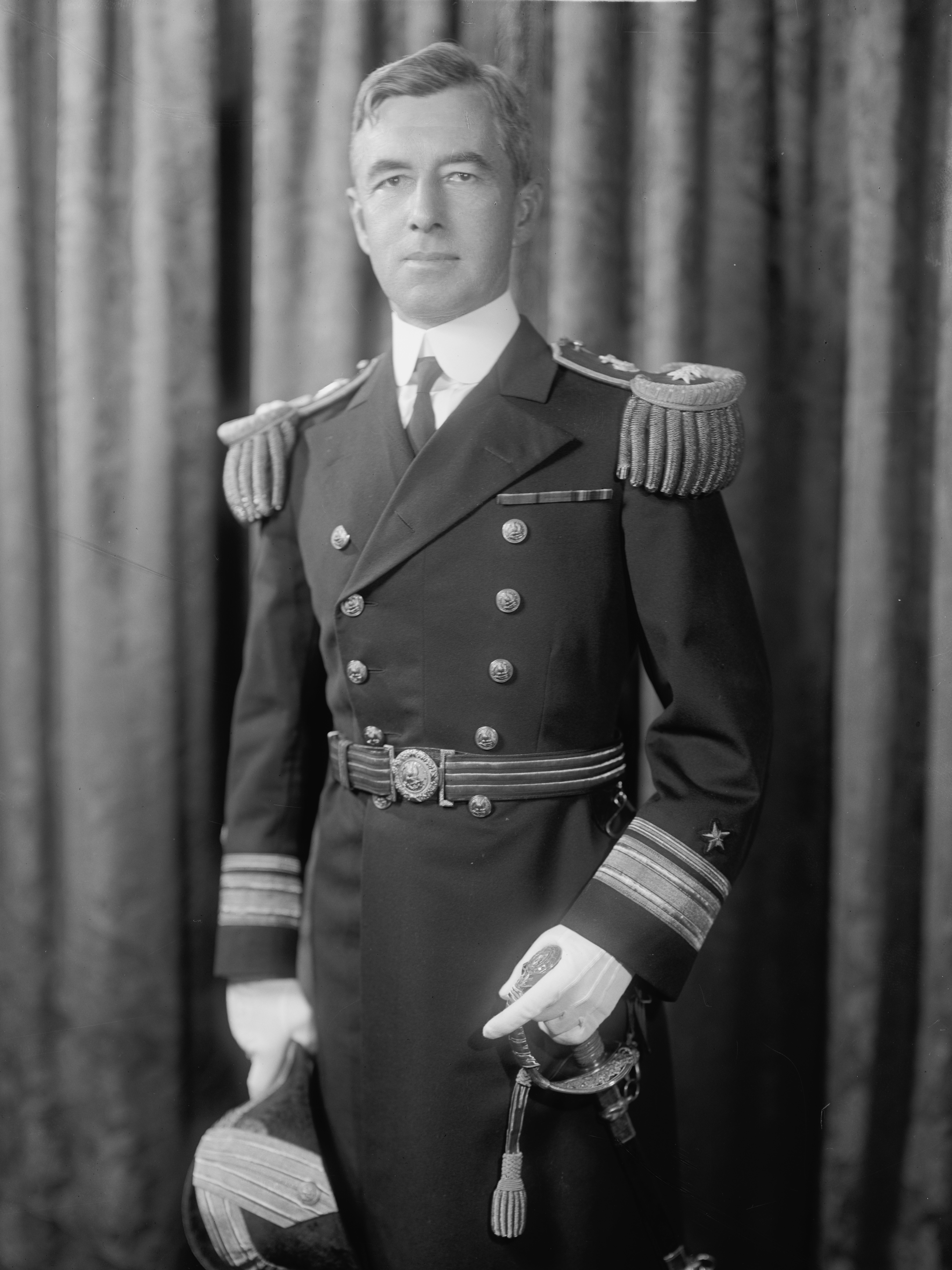 Title: HART, THOMAS. ADMIRAL Abstract/medium: 1 negative : glass ; 8 x 10 in. or smaller